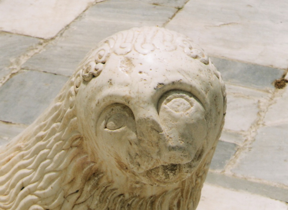 Own Photo; Tinos, Greece taken Mai 2003 by ERWEH